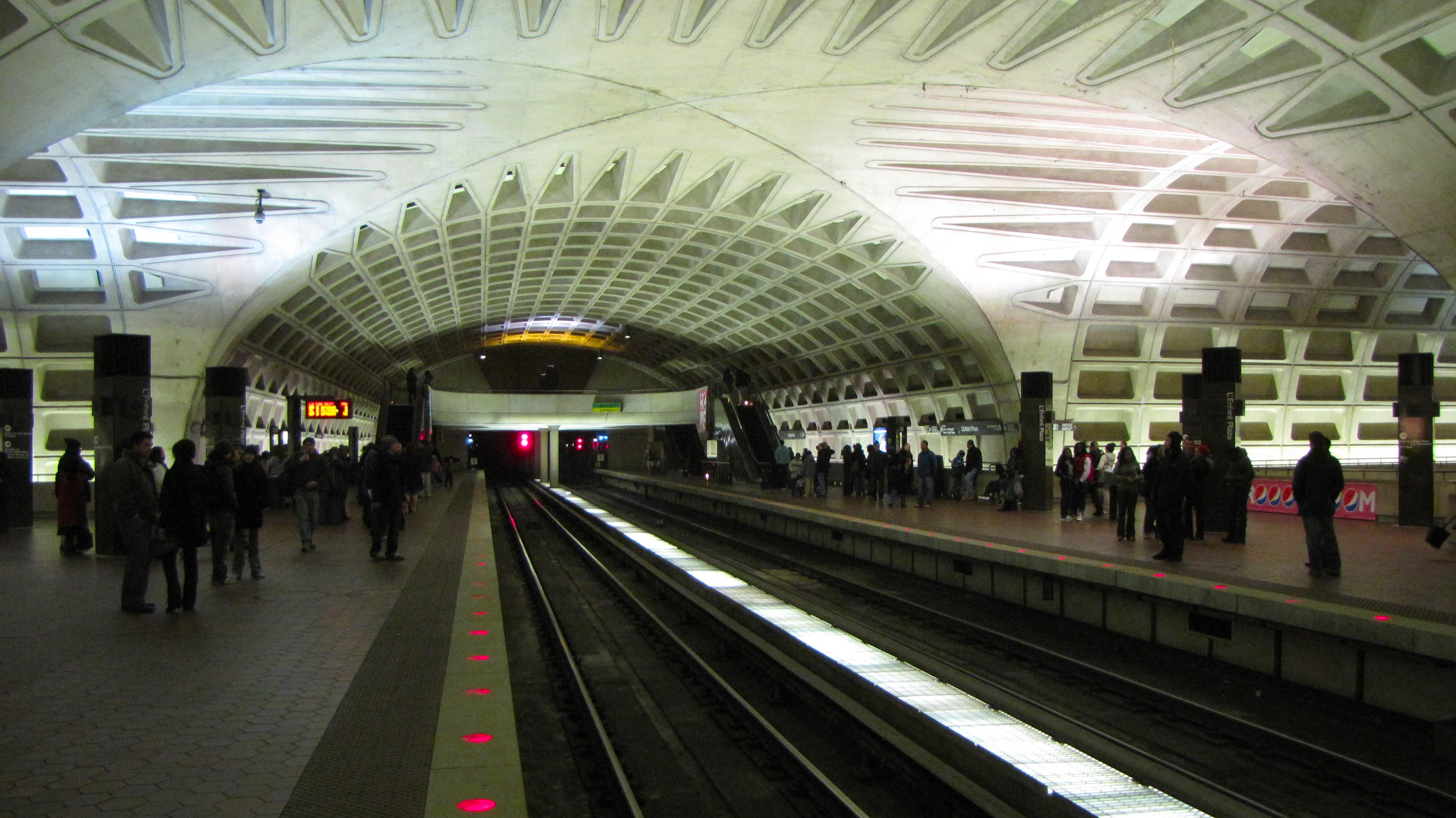 Upper Level of L'Enfant Plaza station, facing outbound direction.